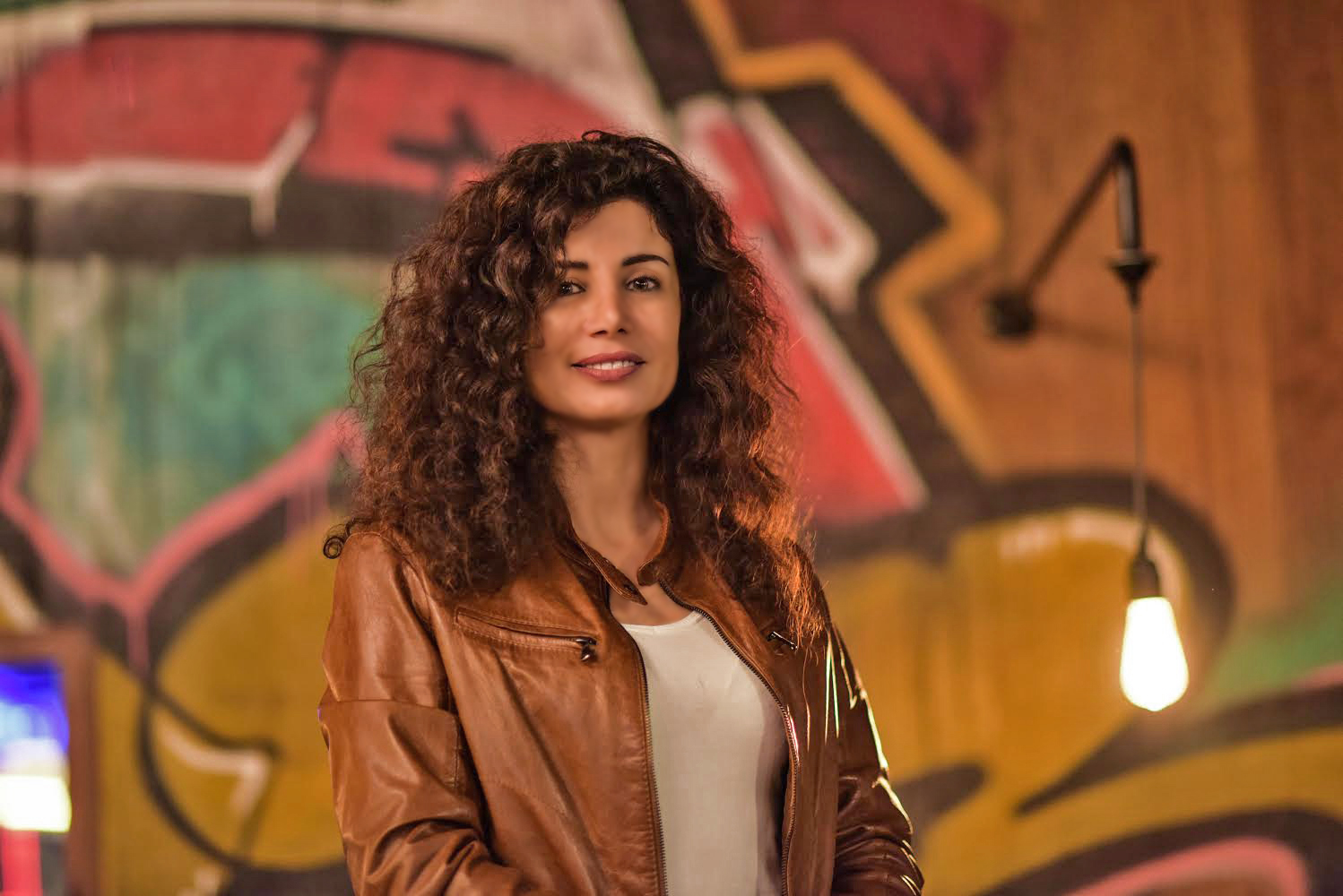 This is a recent portrait of author and activist Joumana Haddad